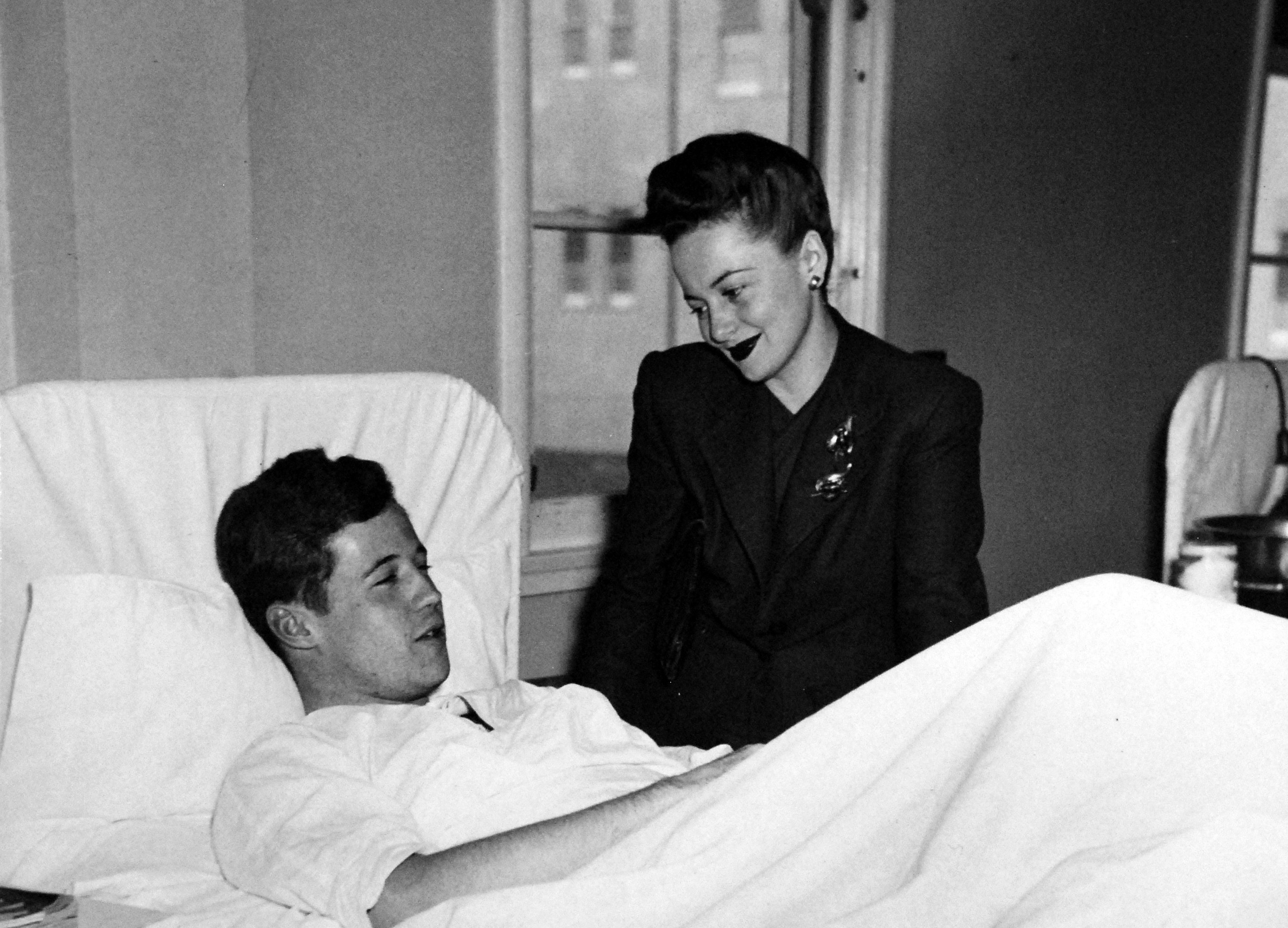 Actress Olivia de Havilland with PhM1/C Arthur J. Dodd at the Naval Air Station, Kodiak, Alaska, March 20, 1944, National Archives (80-G-279798 2016/01/19)